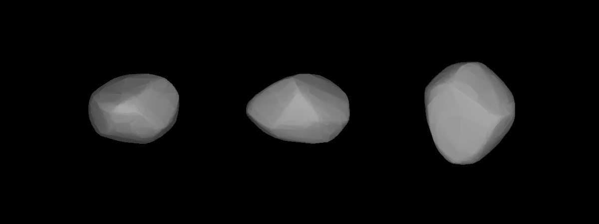 A three-dimensional model of 85 Io that was computed using light curve inversion techniques.